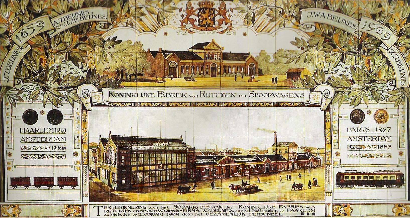 JJ Beijnes carriage factory in operation for 125 years from 1838-1963 that serviced horse carriage owners, trams, trains and busses, Stationsplein, Haarlem, Netherlands. Today all that remains is a sports hall and parking garage with the name Beijnes.